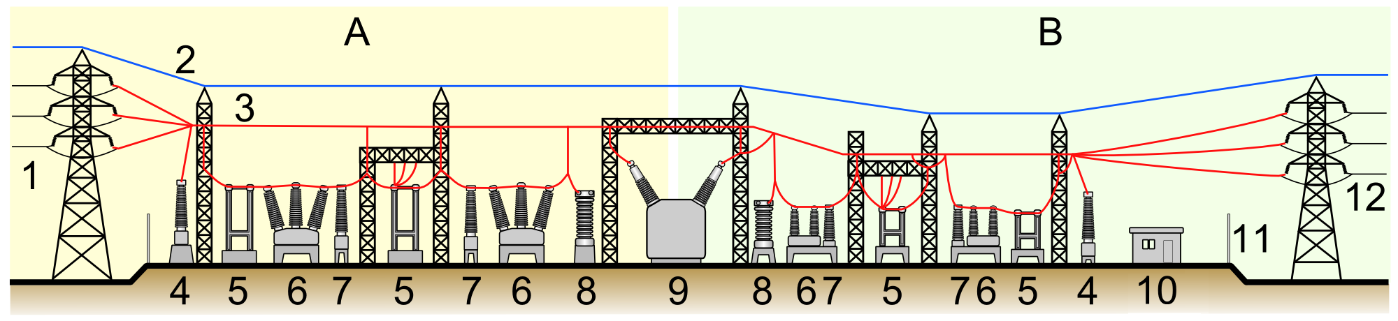 Electrical substation model side-view A: Primary power lines' side B: Secondary power lines' side 1. Primary power lines 2. Ground wire 3. Overhead lines 4. Lightning arrester 5. Disconnect switch 6. Circuit breaker 7. Current transformer 8. Transformer for measurement of electric voltage 9. Main transformer 10. Control building 11. Security fence 12. Secondary power lines